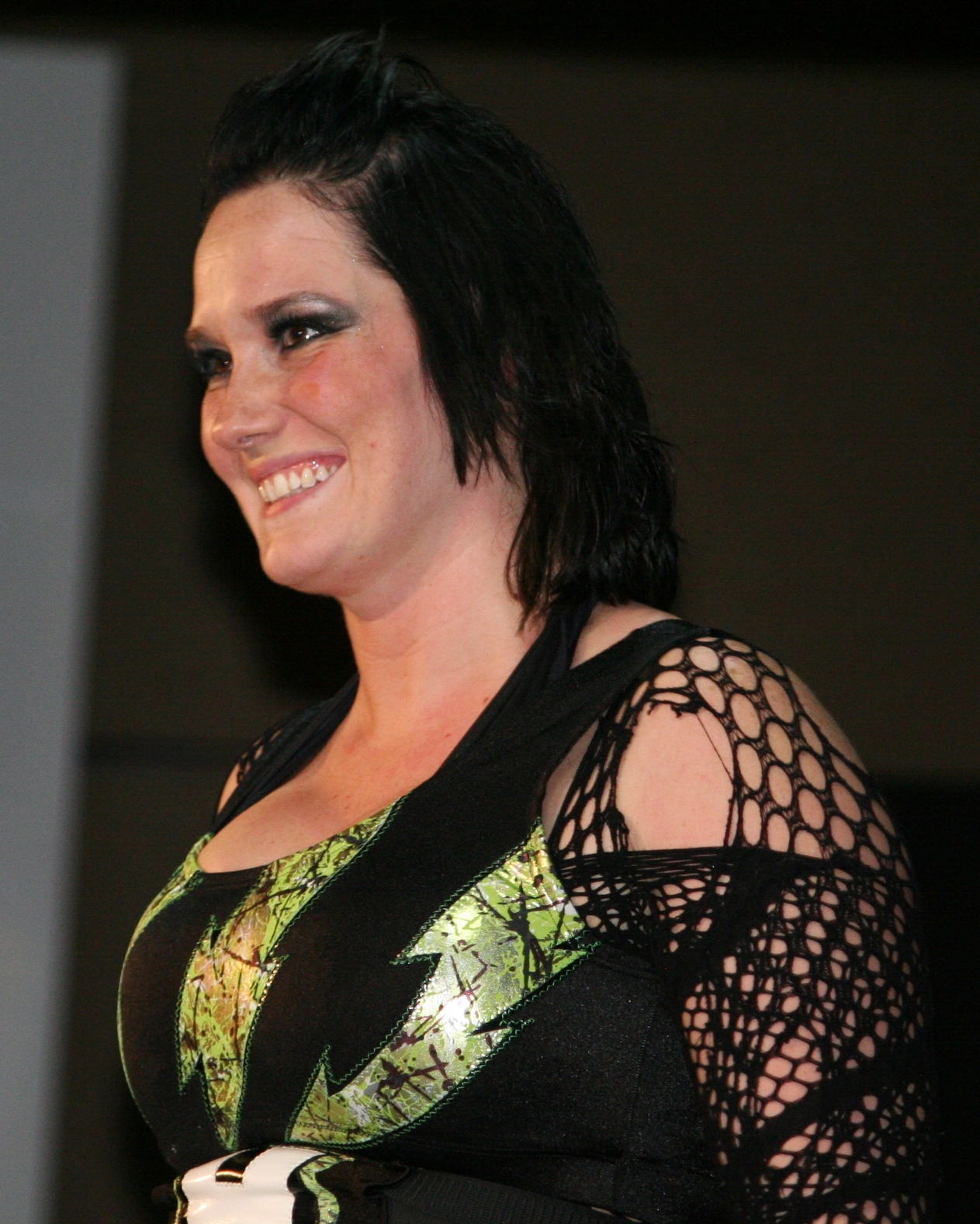 Jessicka Havok at a Queens of Combat show in March 2014.